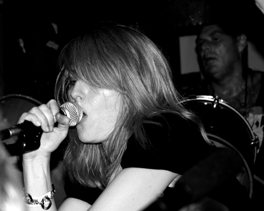 Geraldine Swayne performing with Faust at the Avantgarde Festival in Schiphorst, Germany, 2008-07-05.